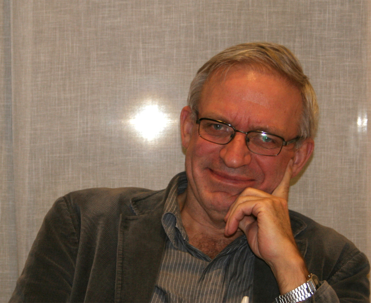 Øystein Hov, Norwegian atmosphere scientist, research director at the Norwegian Meteorological Institute